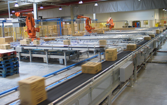 Palletising cell with robots tecno